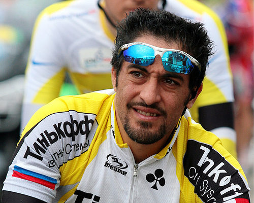 Salvatore Commesso at the end of a stage of the 2007 Tour of Britain